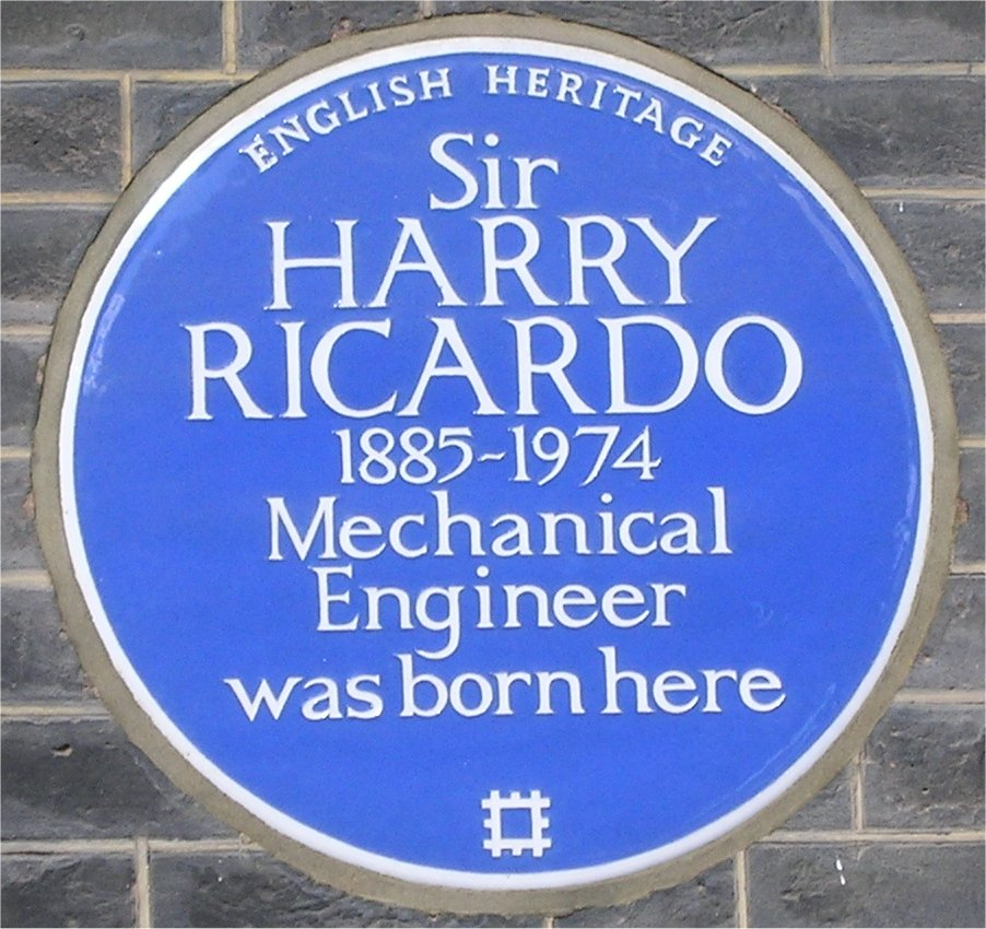 Blue plaque to Harry Ricardo on his house in Bedford Square, London, England. Photographed by me 29 September 2006. Oosoom